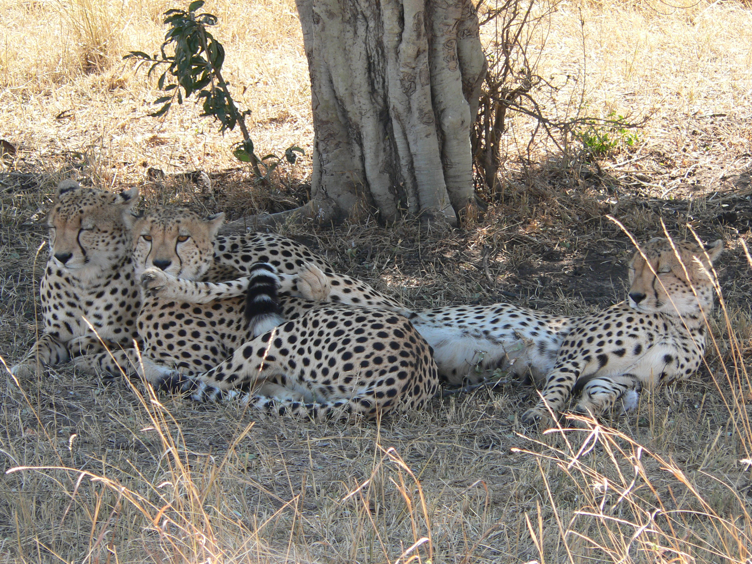 We think this was mother with two grown up cubs.